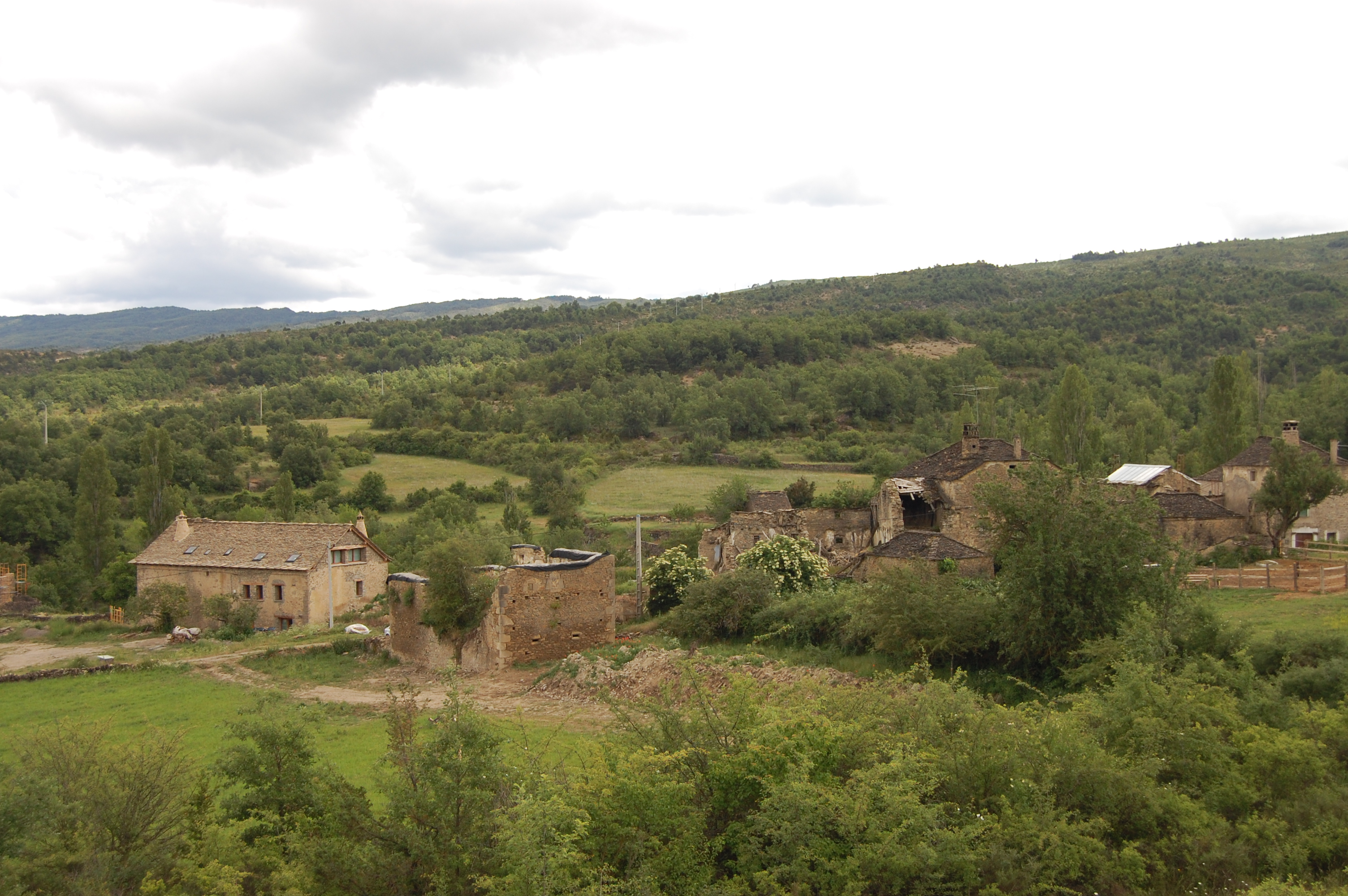 General overview Lasaosa village. Summer 2009